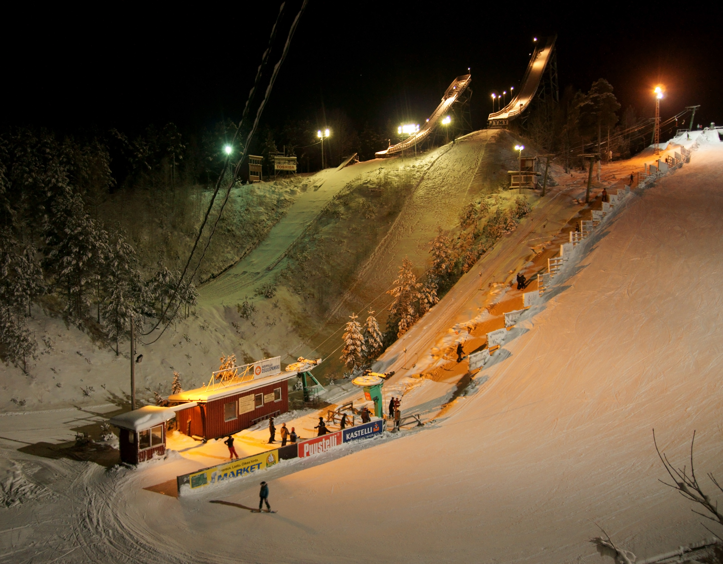 Photo from Hiittenharju, Harjavalta, Finland: Skilift and ski jumping facility.